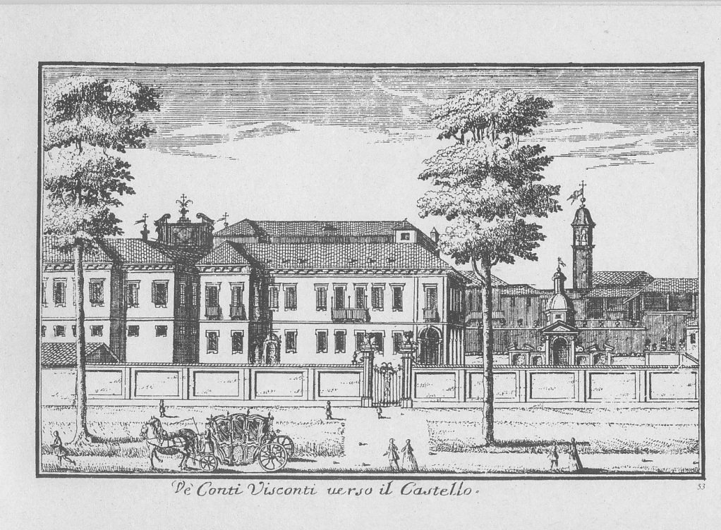 Marc'Antonio Dal Re (1697-1766), "Palace owned by counts Visconti towards the Castle". This is Palazzo Litta in Milan, formerly Palazzo Visconti-Arese. This engraving is # 53 from a set of 88 Vedute di Milano ("Views of Milan") published by Del Re around 1745.